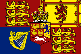 Standard of the House of Hanover (1814-1837)